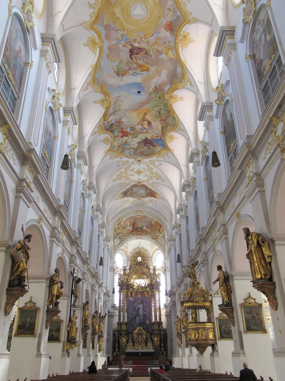 Munich, Church St.Peter